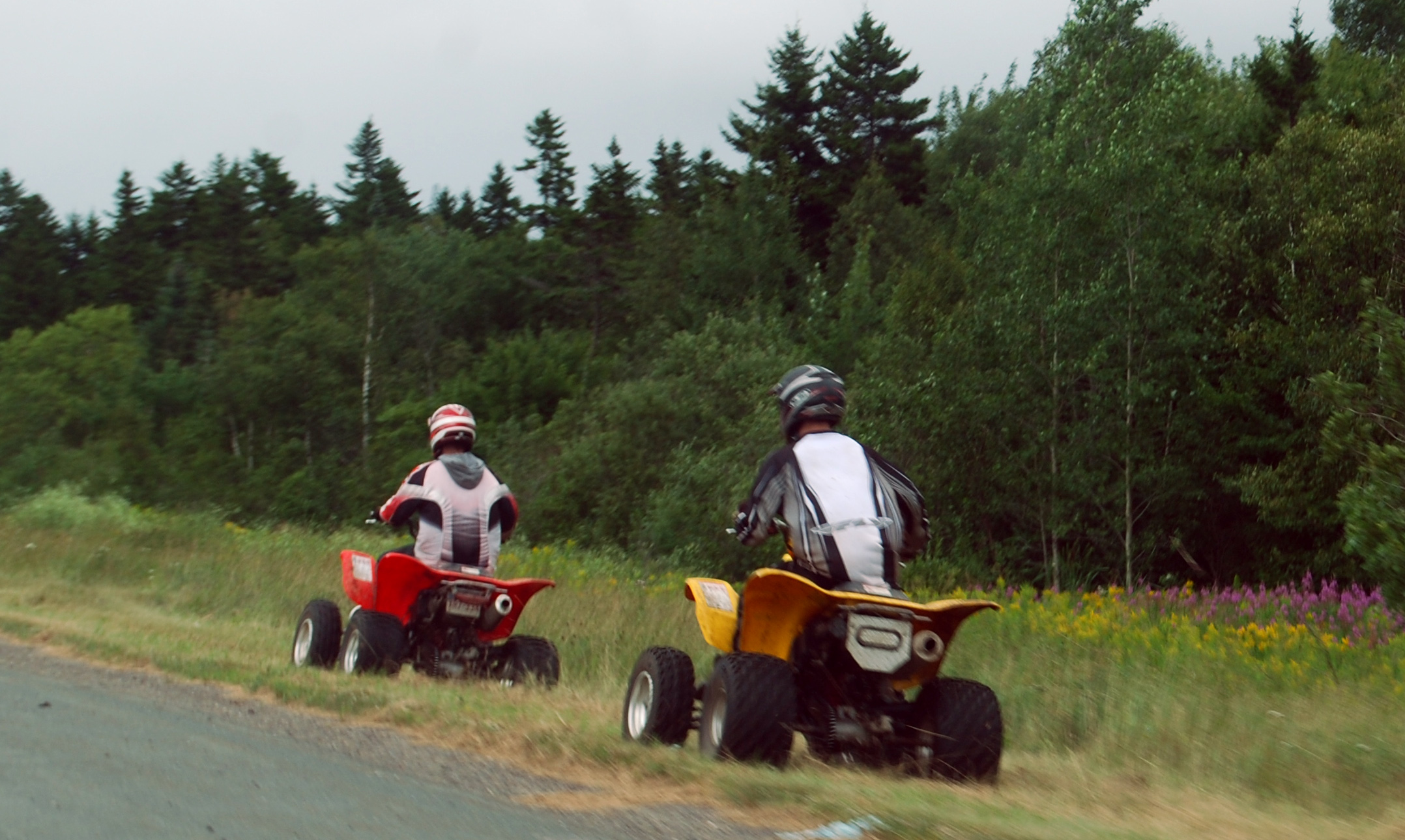 I, Myke Waddy took this photo, New Brunswick Canada.